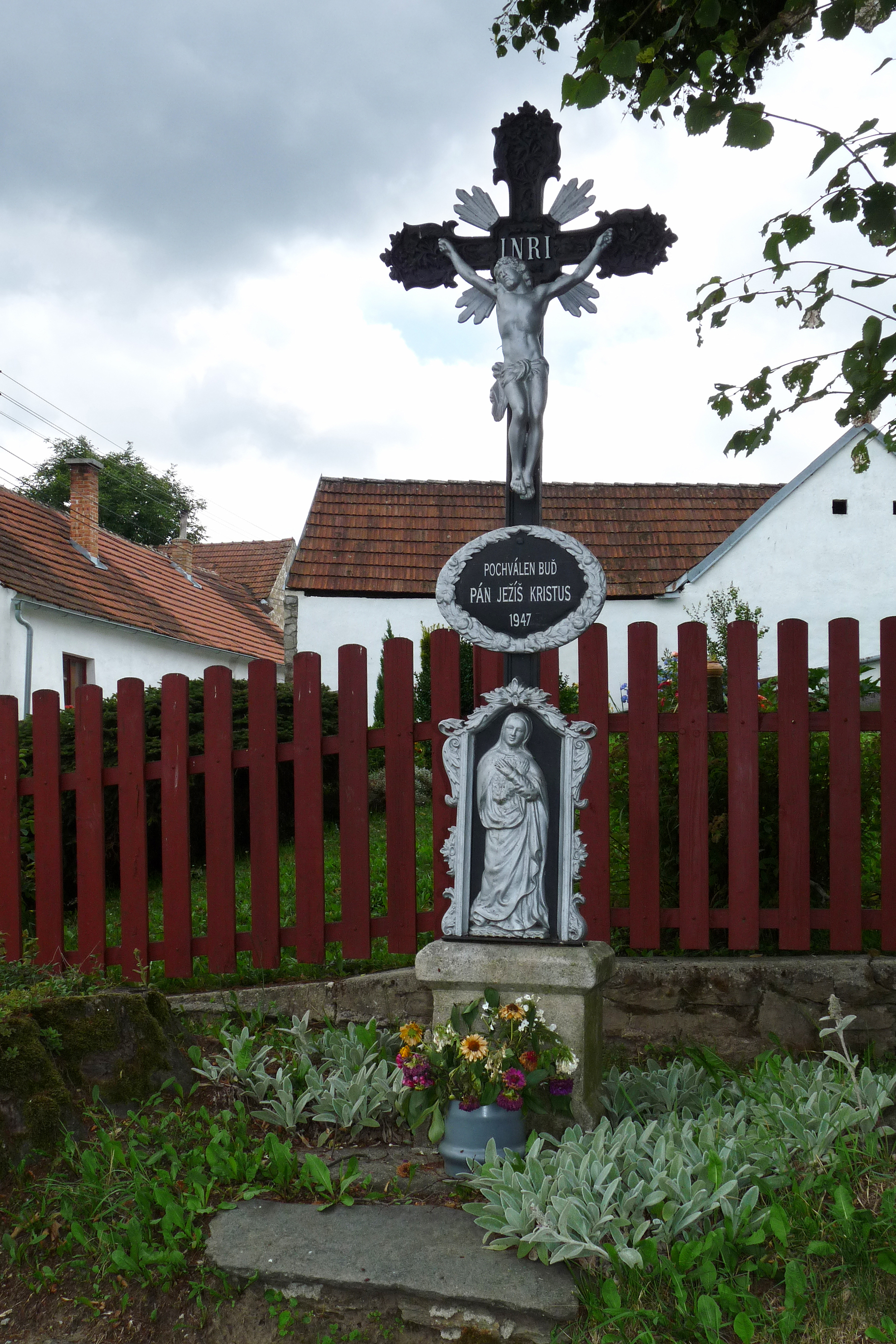 Cross in Jedovary, is a small village in České Budějovice District, Czech Republic.